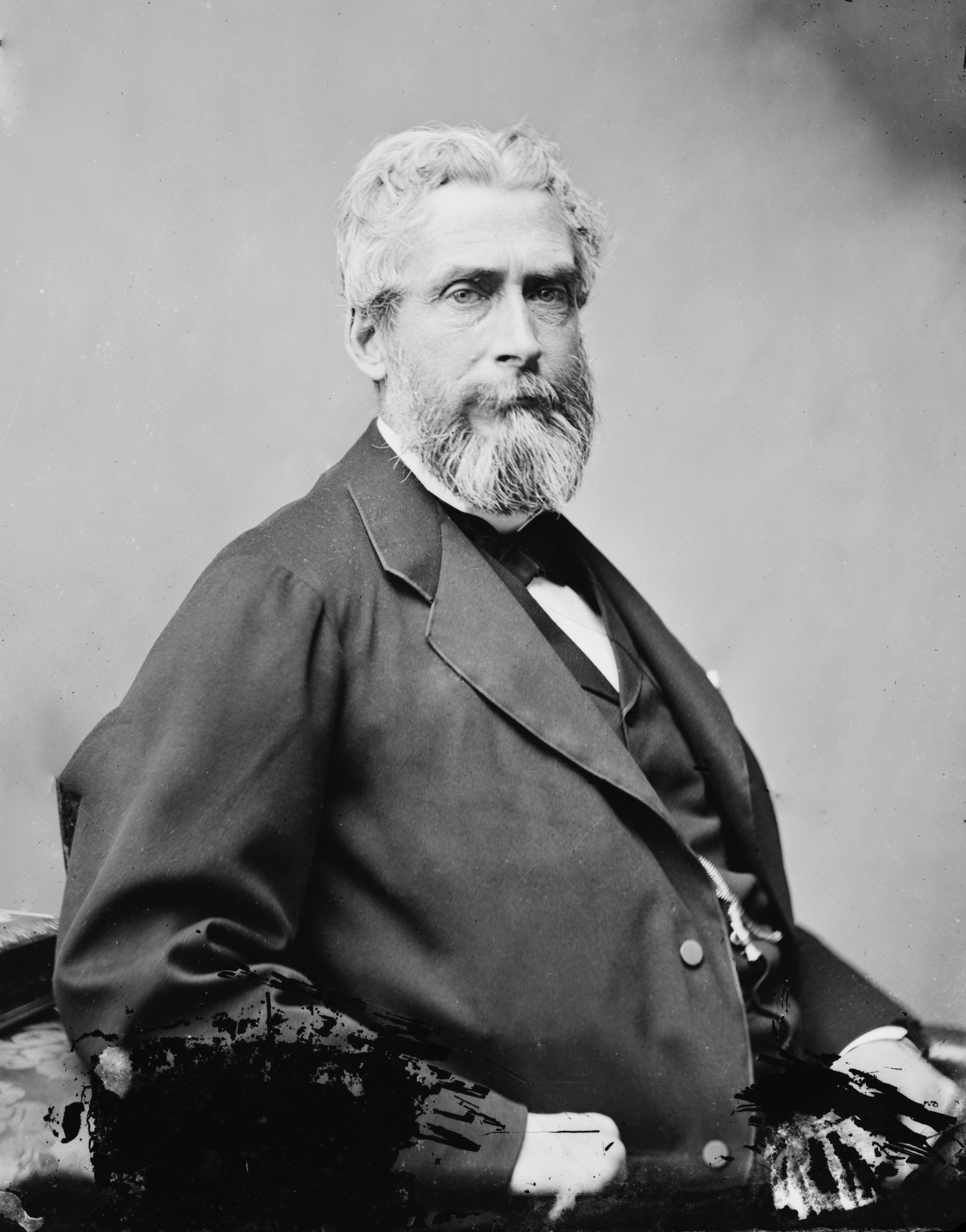 John Lothrop Motley. Library of Congress description: "John Lathrop Motley".